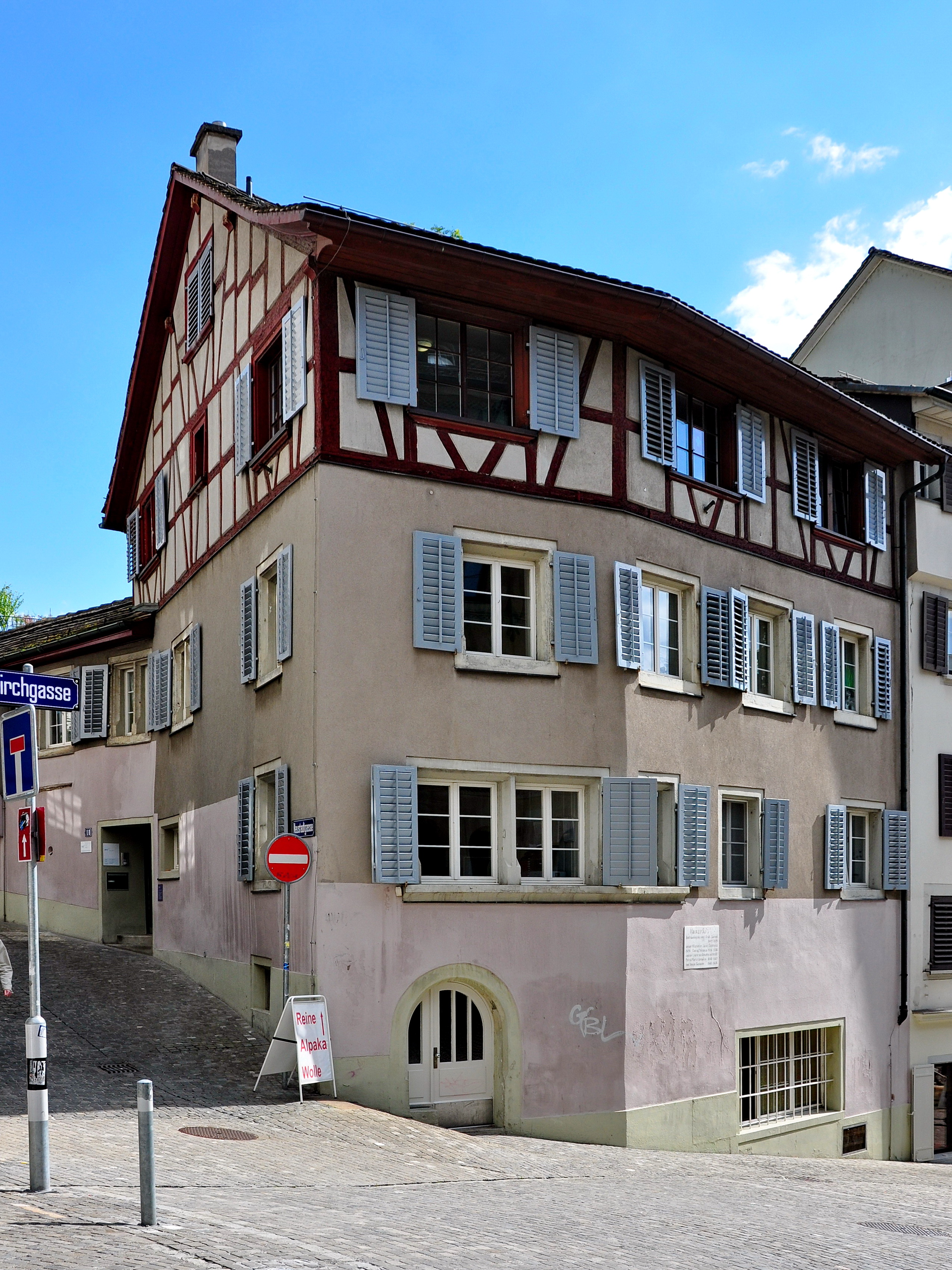 Zürich, Kirchgasse 22 / Neustadtgasse (Grossmünster) : «Haus zur Sul» (propably 14th century).